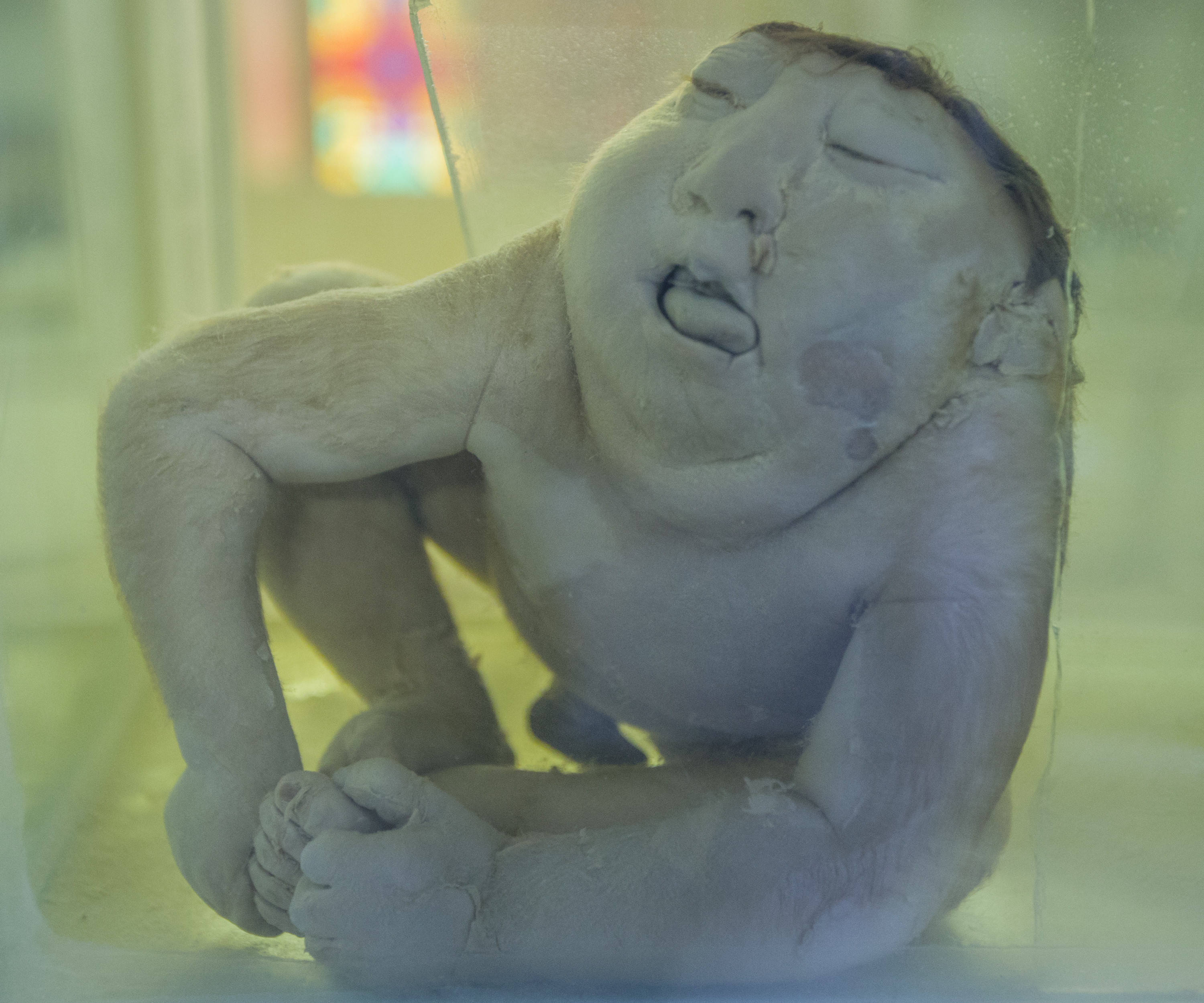 The Natural History Museum of Isfahan is located in a building from the Timurid era in the 15th century. The building includes some large halls and a veranda, which are decorated by muqarnas and stucco.